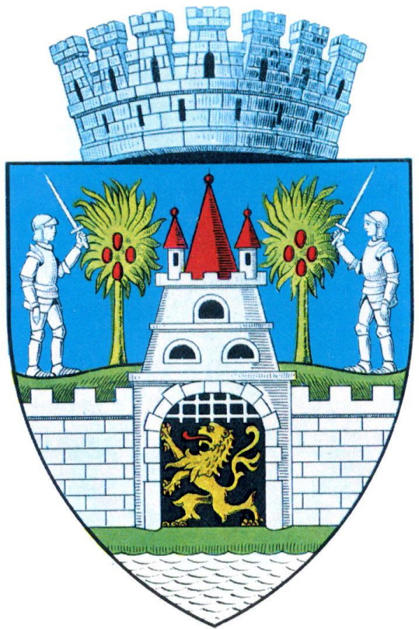 Interwar coat of arms of Satu Mare, Satu Mare County, Kingdom of Romania.